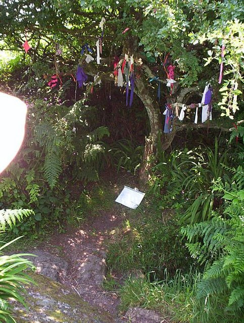 Sancreed Holy Well This is the Cloutie Tree guarding the entrance to the Well.